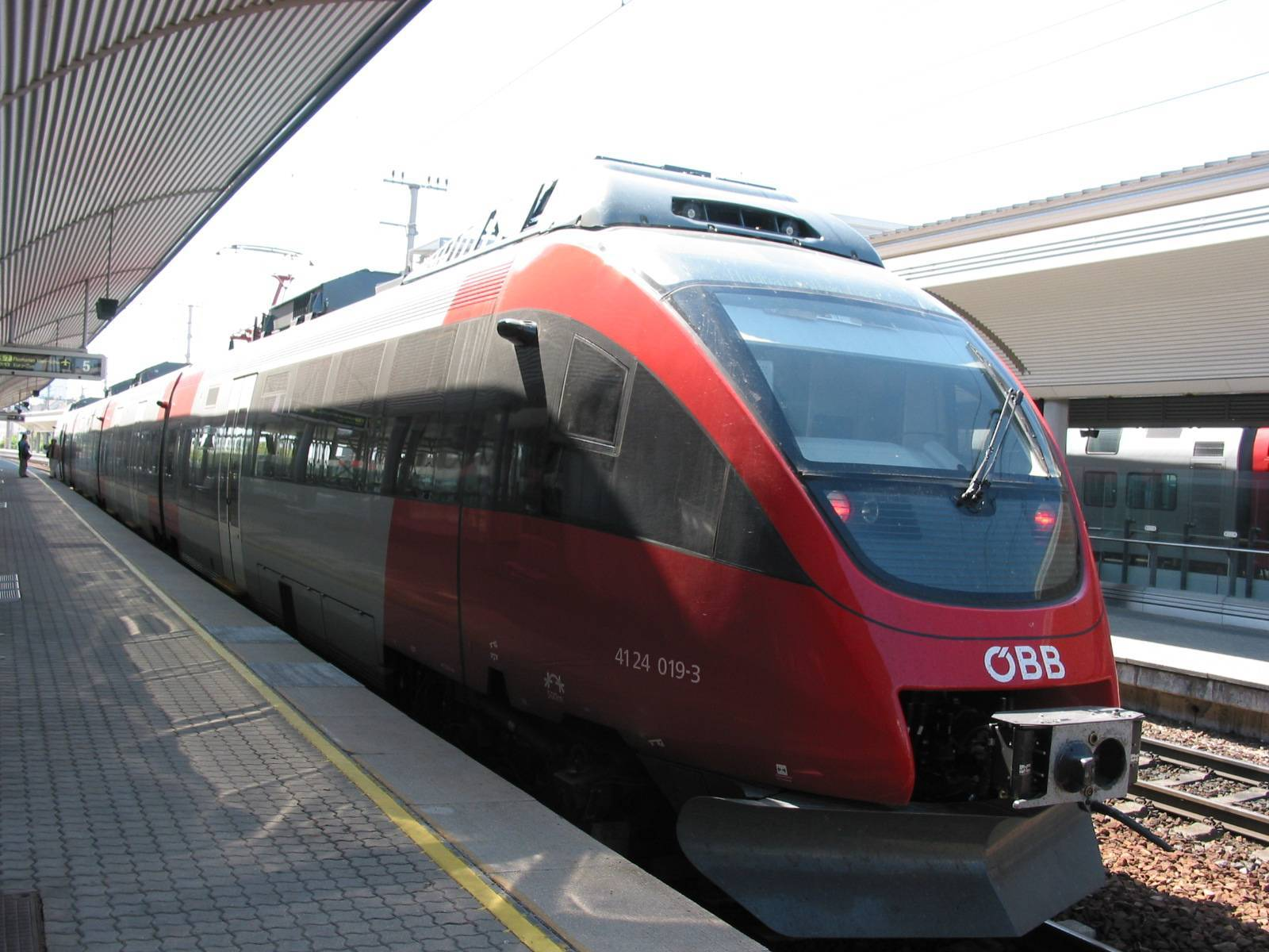 Wien Floridsdorf railway station, EMU ÖBB 4124 019-3